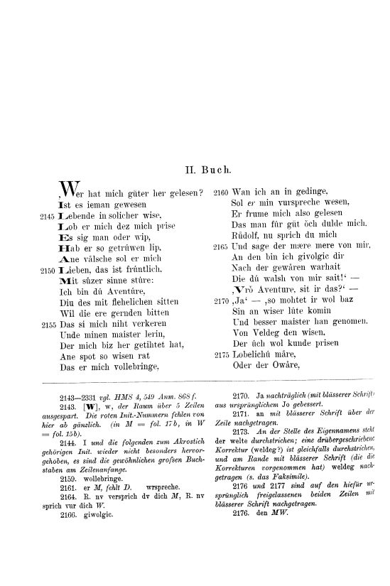 Rudolf von Ems: Willehalm von Orlens, page 36 with comments by Victor Junk